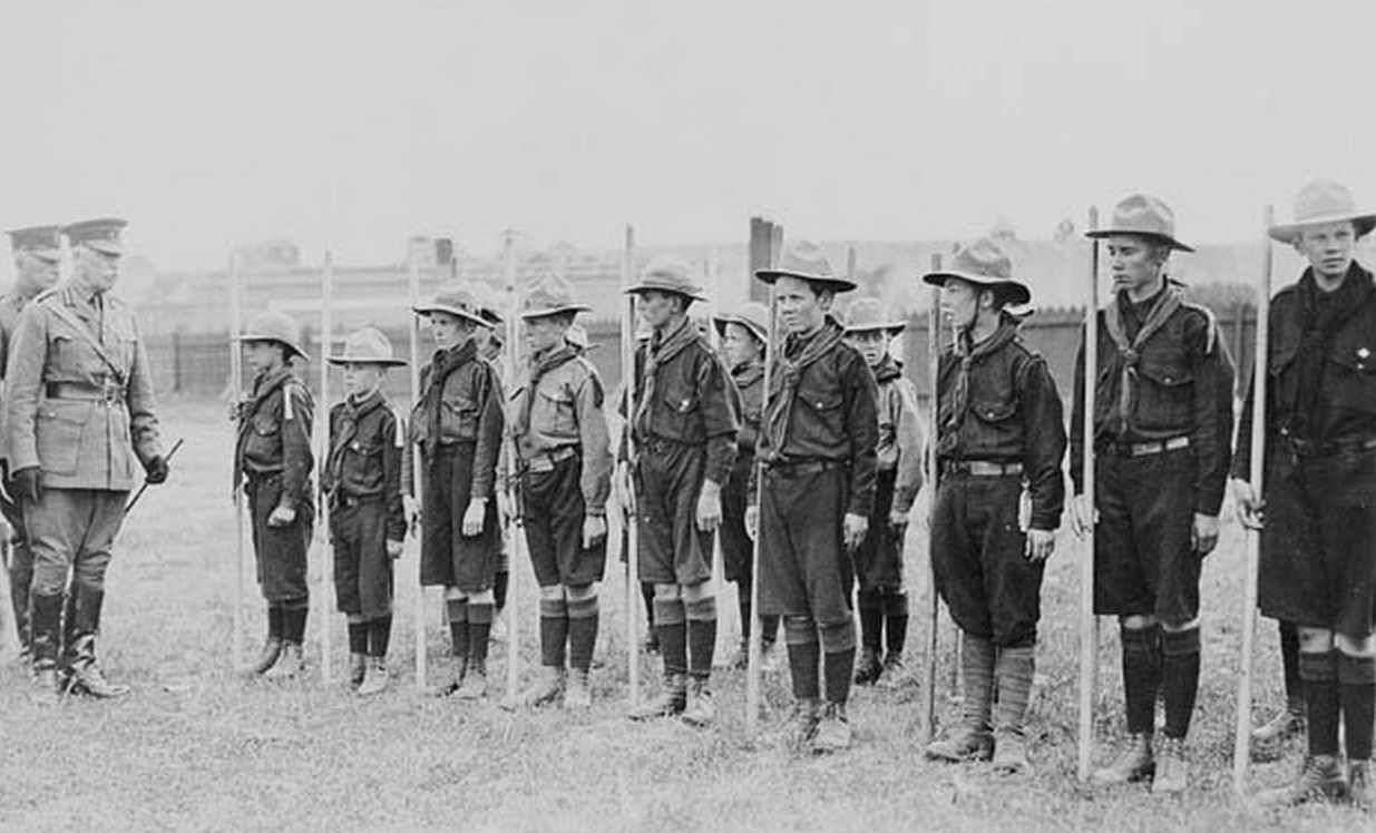 Brigadier General E.A. Cruickshank Reviewing Boy Scouts, Calgary, Alberta, 1915. While soldier, archivist and historian Ernest A. Cruickshank was stationed in Calgary, he was appointed the director of the new Boy Scout movement in Western Canada.